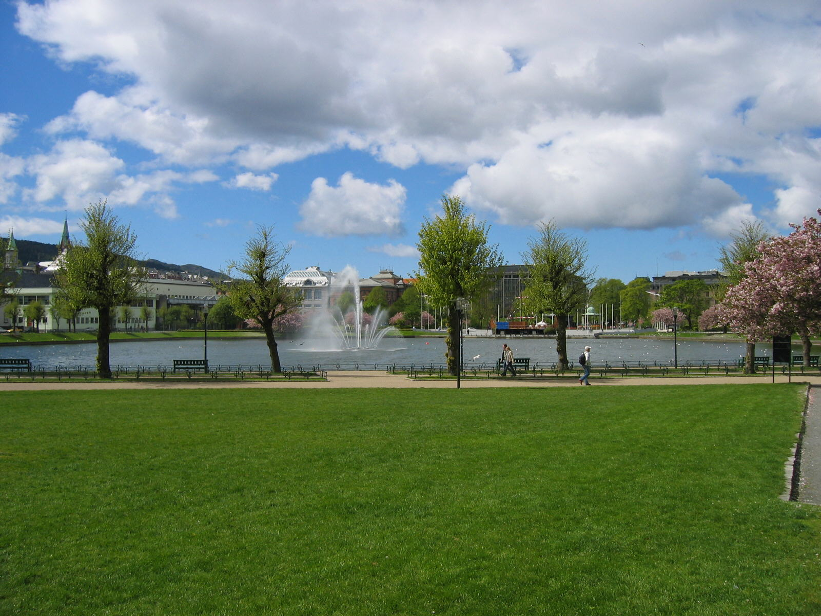 View of Byparken in Bergen, Norway in May 2005